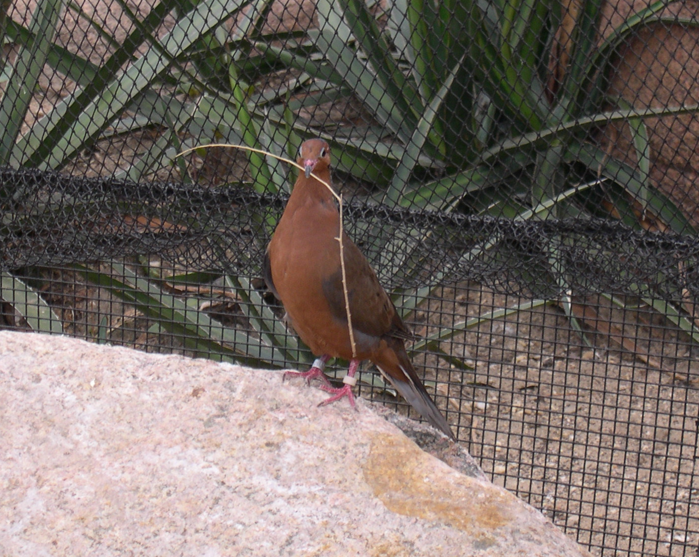 A Socorro Dove (Zenaida graysoni) in Burgers Zoo, Arnhem, The Netherlands.